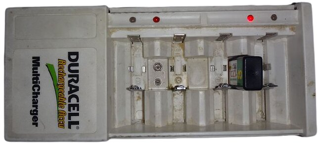 Duracell battery charger